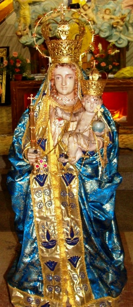 Taken in Keelavaippar at the Lady of Assumption Church